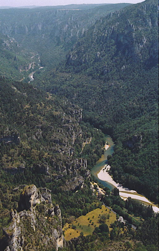 Gorges du Tarn viewed from Point Sublime.